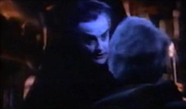 A screenshot from The Legend of the 7 Golden Vampires